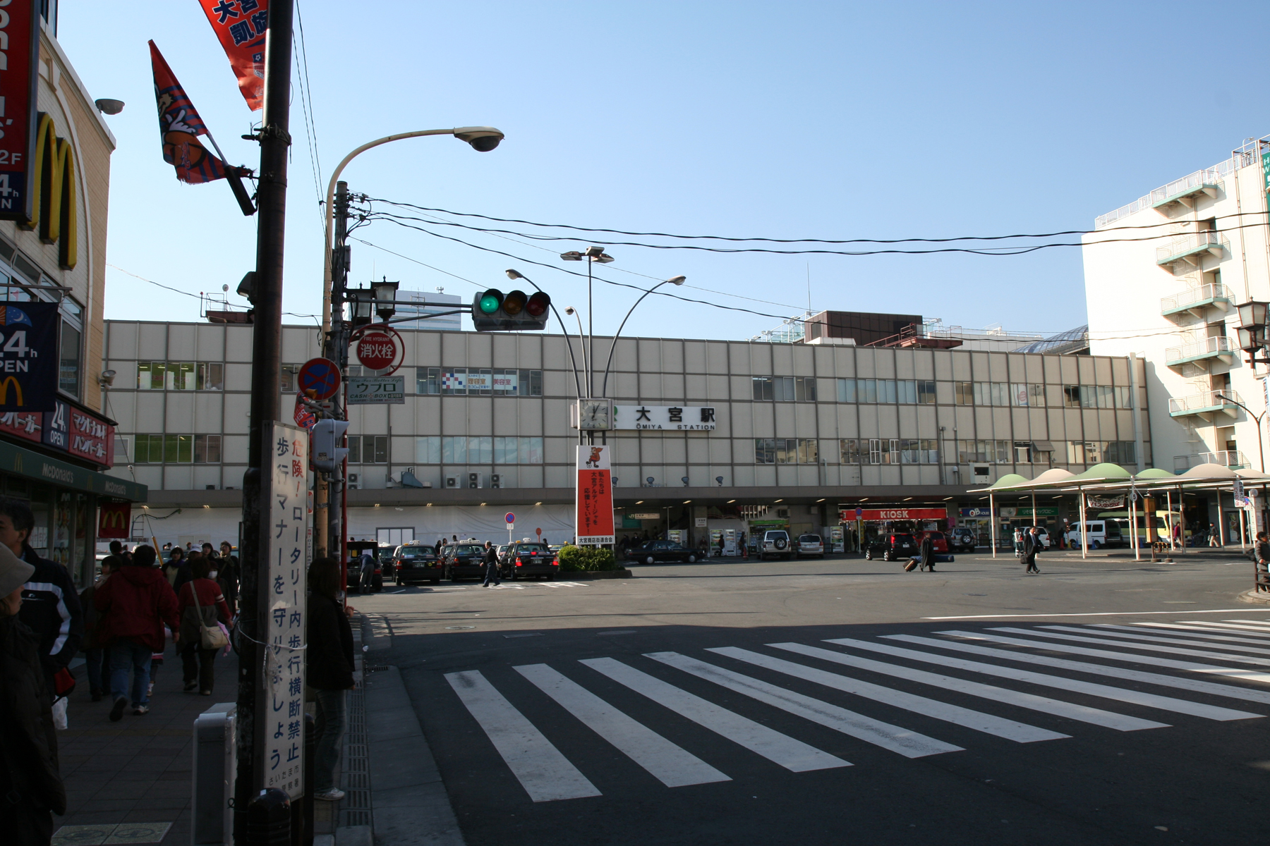 JAPAN RAILWAY COMPANY Omiya Station east exit in Saitama, Saitama.